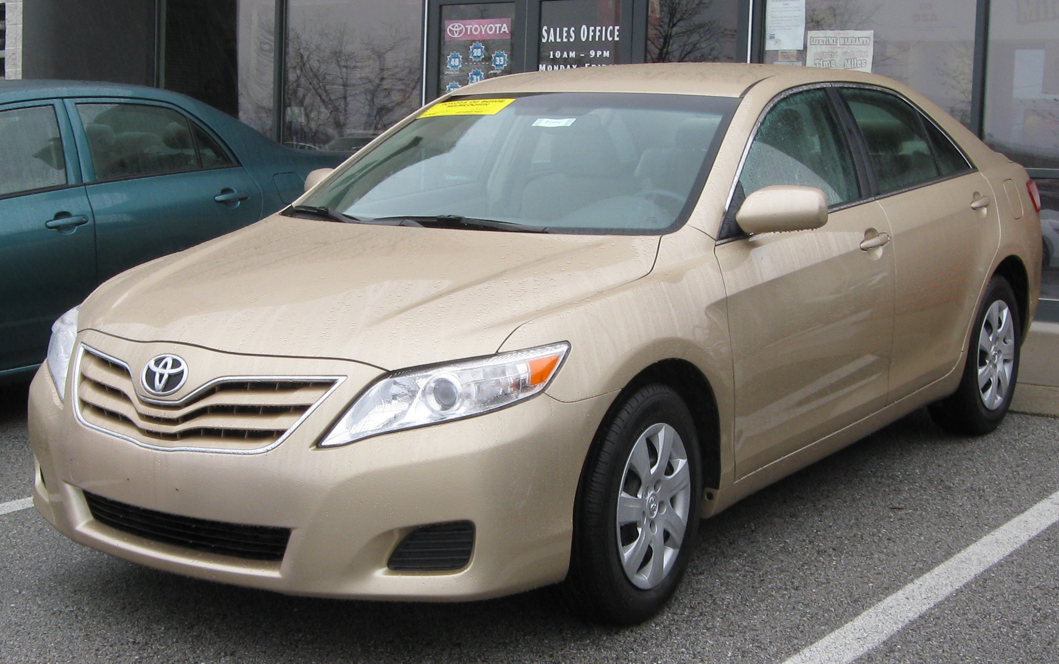 2010 Toyota Camry photographed in Bowie, Maryland, USA.